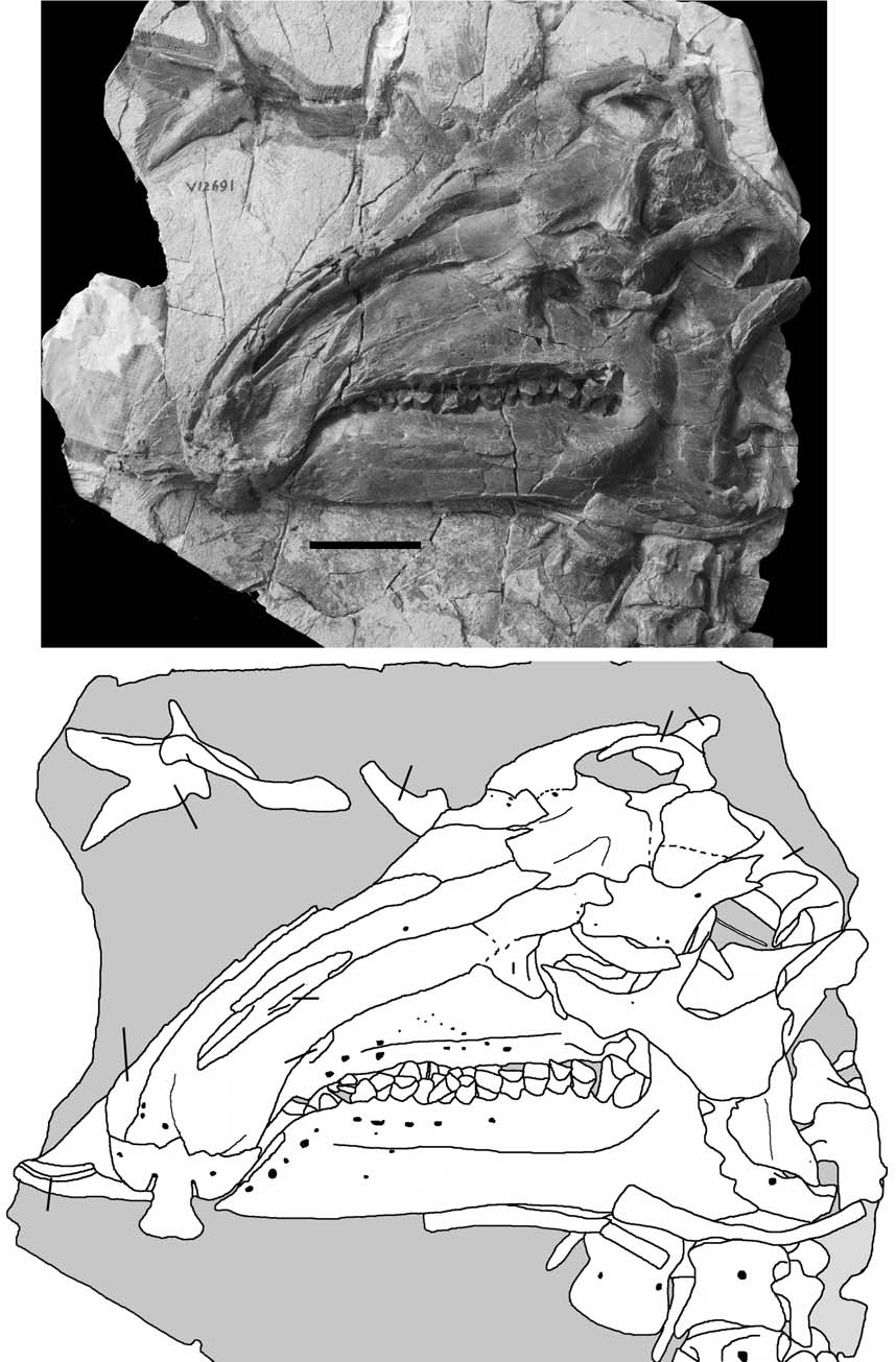 Holotype skull of the iguanodontoid ornithopod Jinzhousaurus yangi Wang and Xu, 2001a (IVPP V12691) from the lower Aptian (Lower Cretaceous) Dakangpu Member of the Yixian Formation of Baicaigou, Liaoning Province, People’s Republic of China. Photograph (A) and interpretative drawing (B) of the skull in left lateral view.